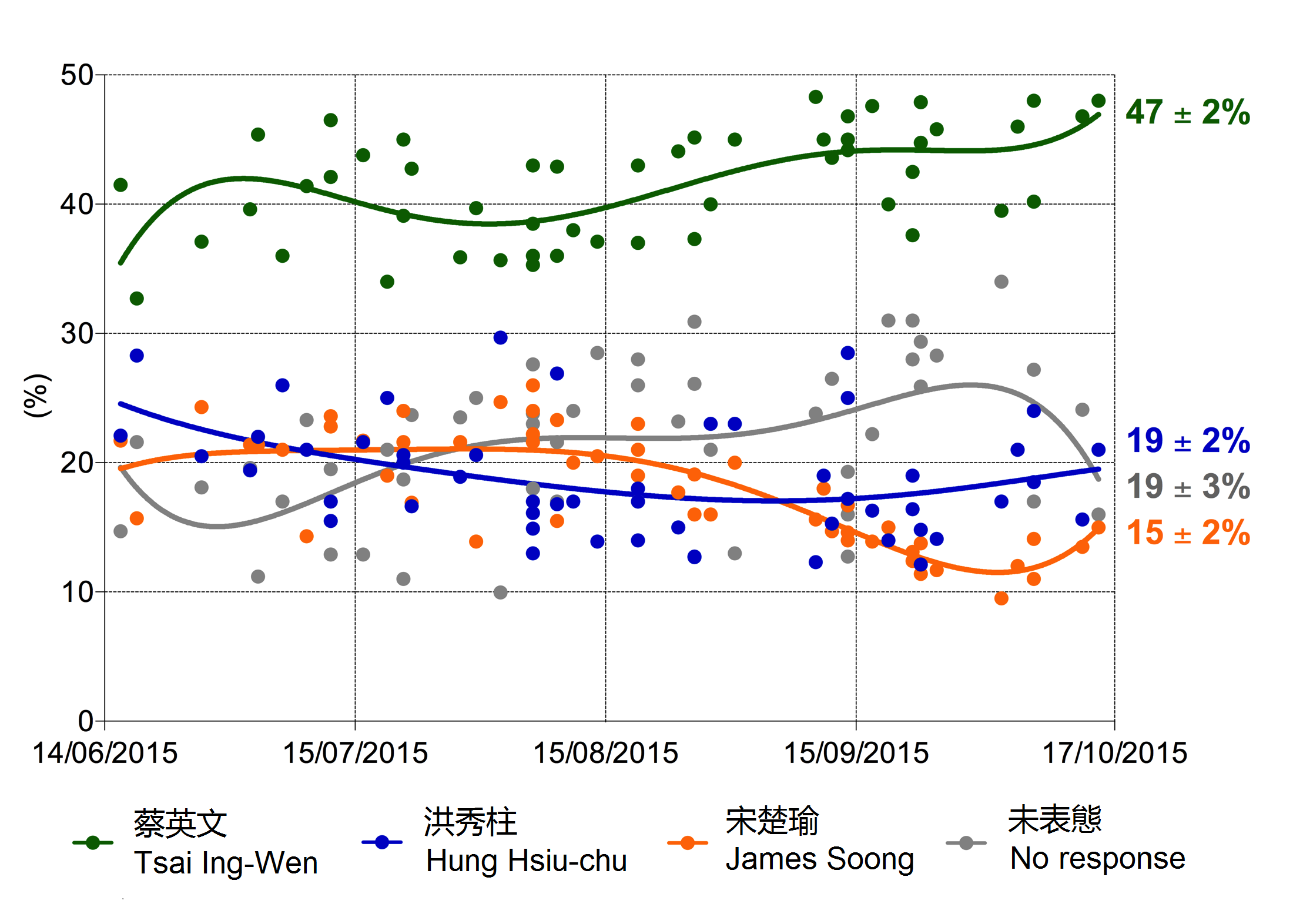 Polling for the 2016 Presidential Election prior to the recall of former KMT candidate Hung Hsiu-Chu. Polynomial regression model used.